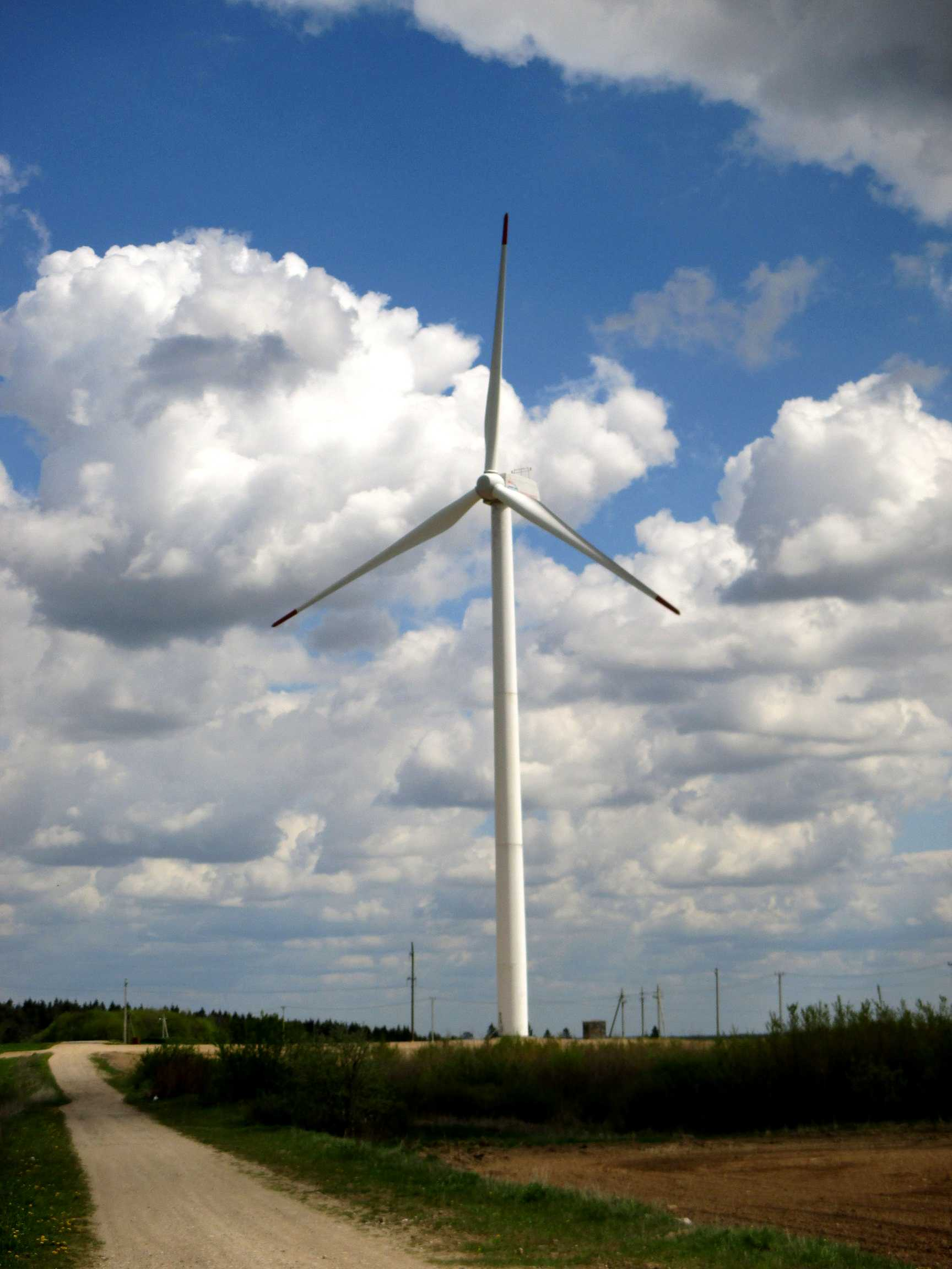 Wind turbine in Navahrudak District in Belarus